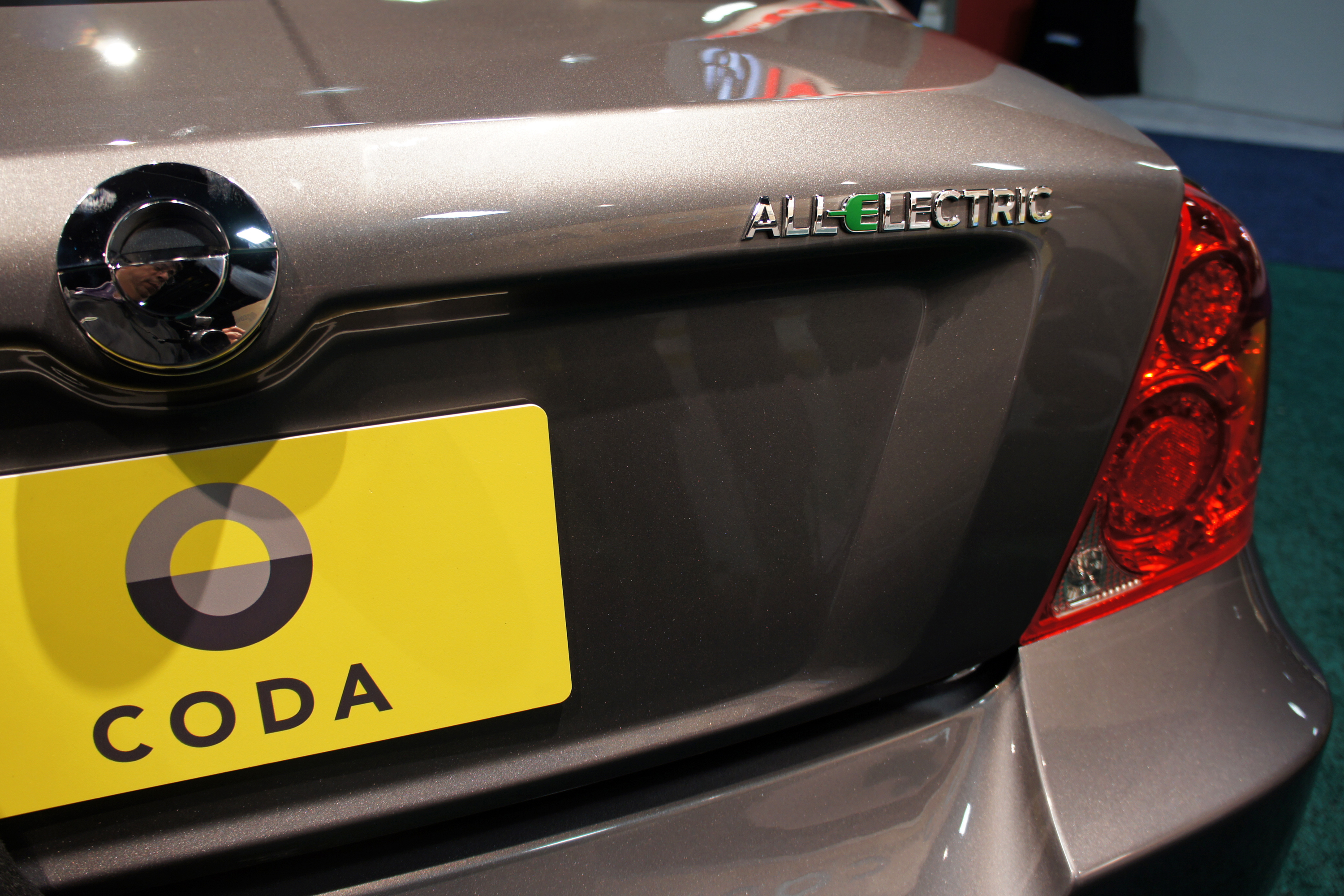 Badging of the CODA electric car exhibited at the 2012 Washington Auto Show, District of Columbia.